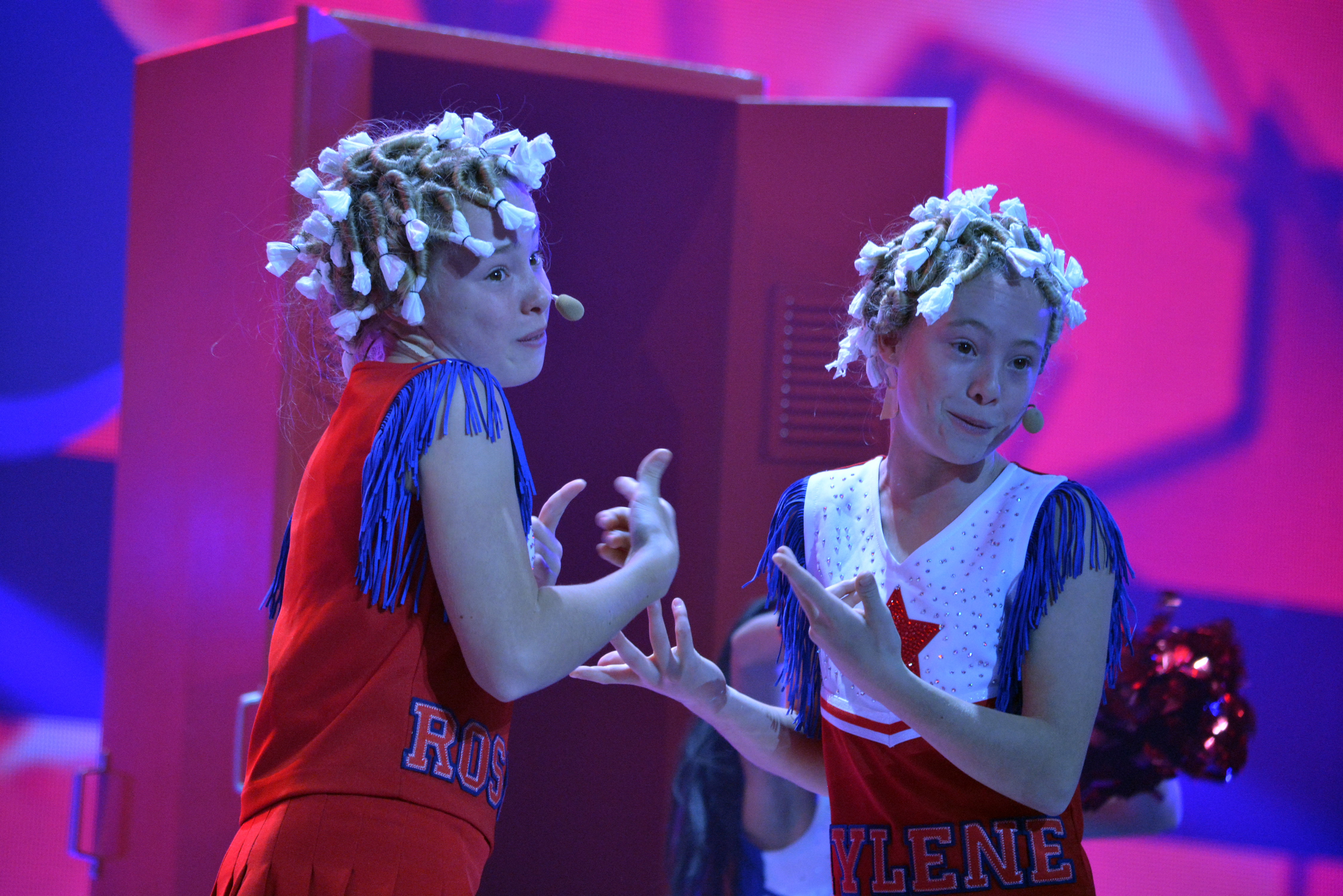 JESC 2013 (Netherlands) Mylène and Rosanne at rehearsal